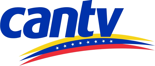 Cantv logo,is one of the first telephone service enterprises in Venezuela, founded in 1930